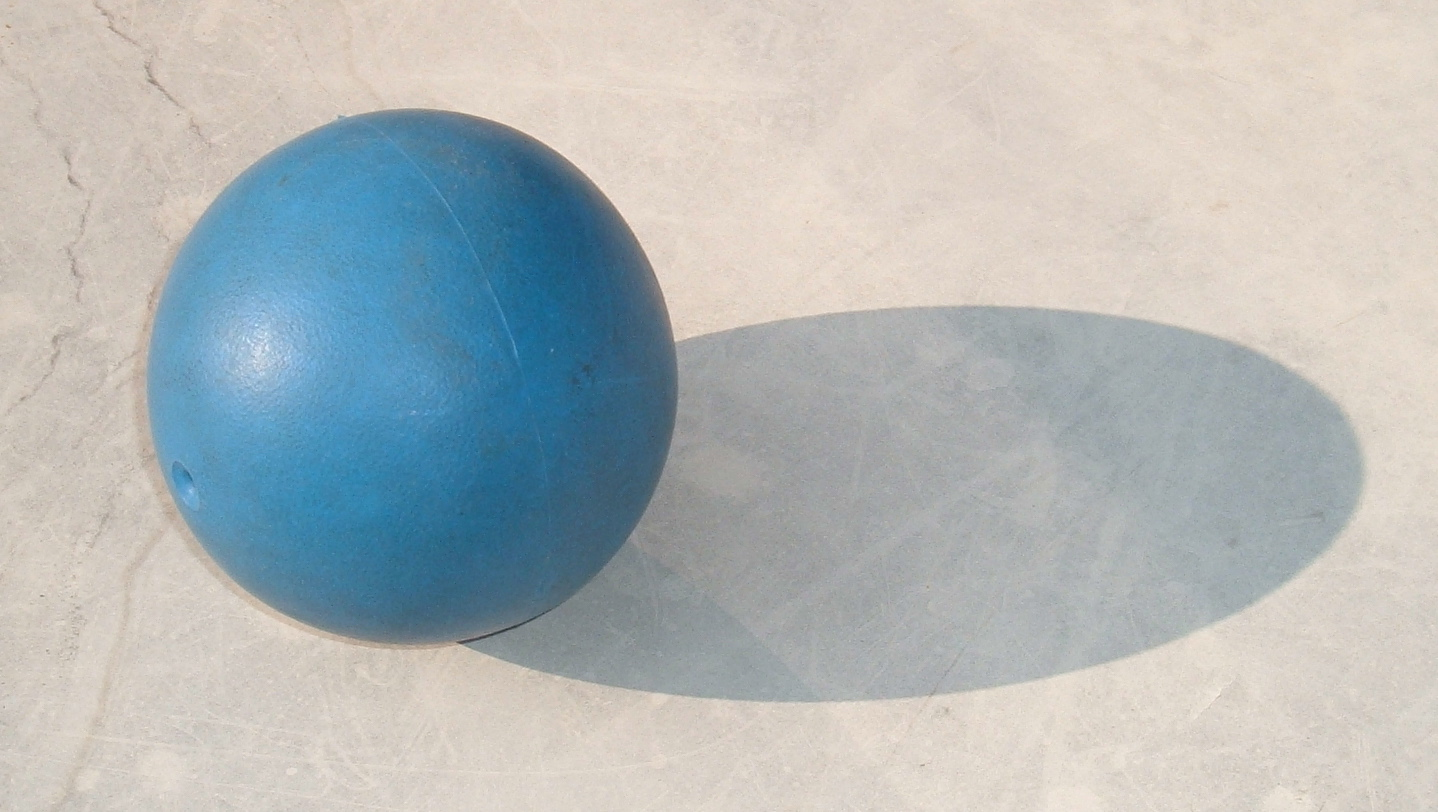 A blue ball. One of a series of common objects I photographed in the summer of 2005 to illustrate Basic English picture wordlist. --agr 21:08, 3 August 2005 (UTC)